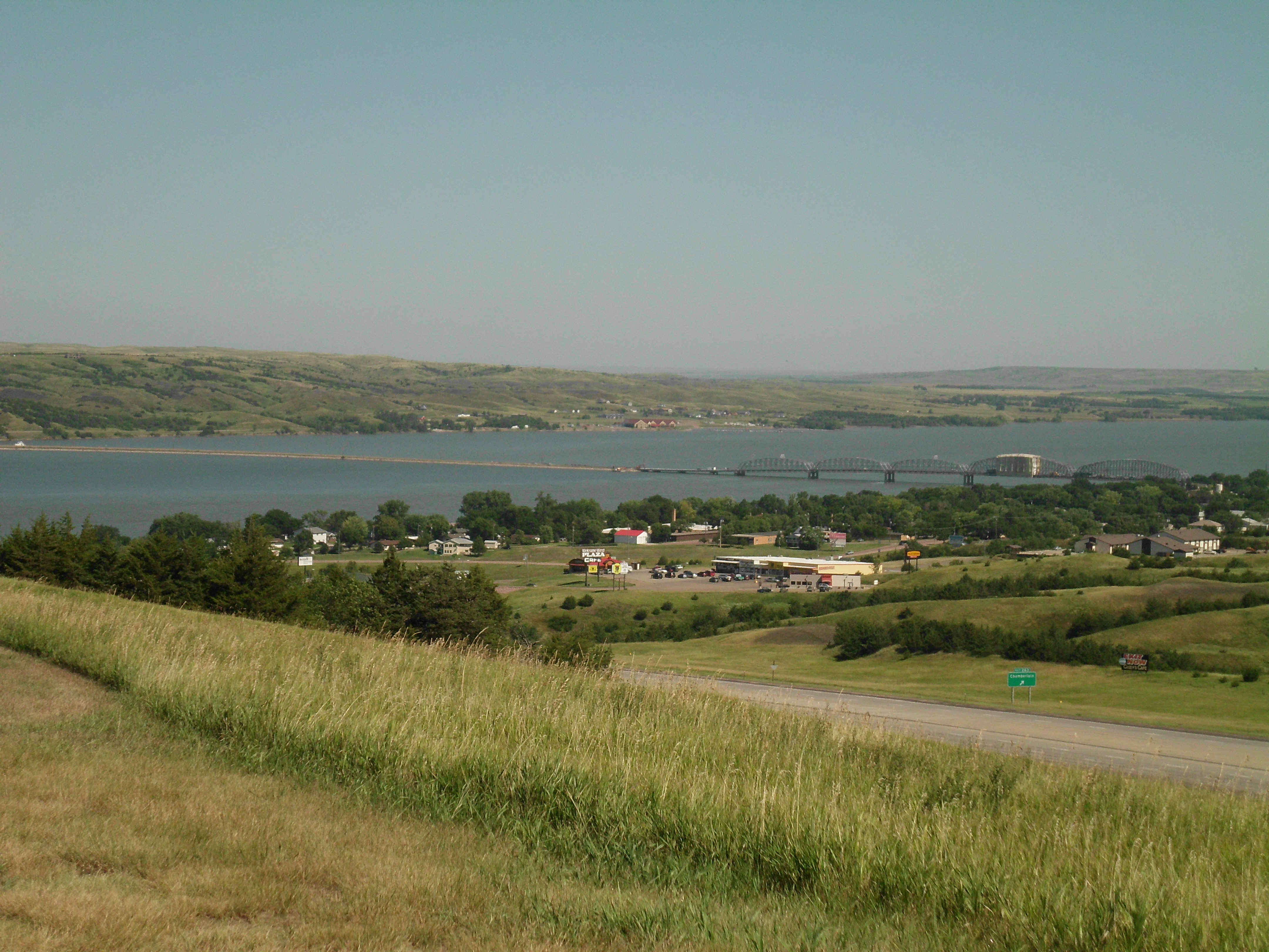 The Missouri River as seen from a rest stop on Interstate 90 just south of Chamberlain, South Dakota, and east of the river.